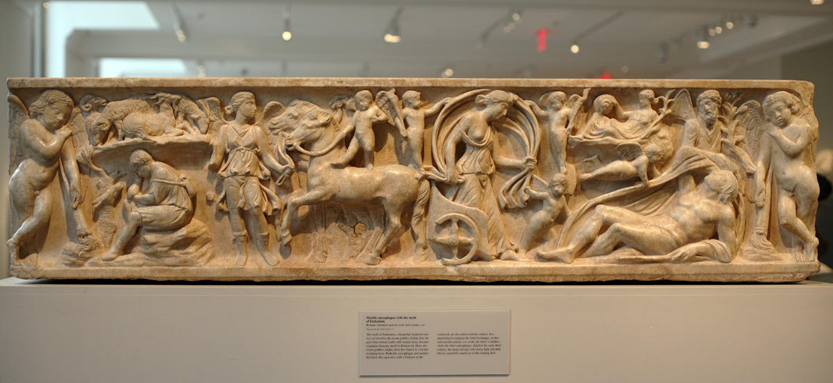 Metropolitan Museum of Art # 24.97.13 Photographer: Katie Chao